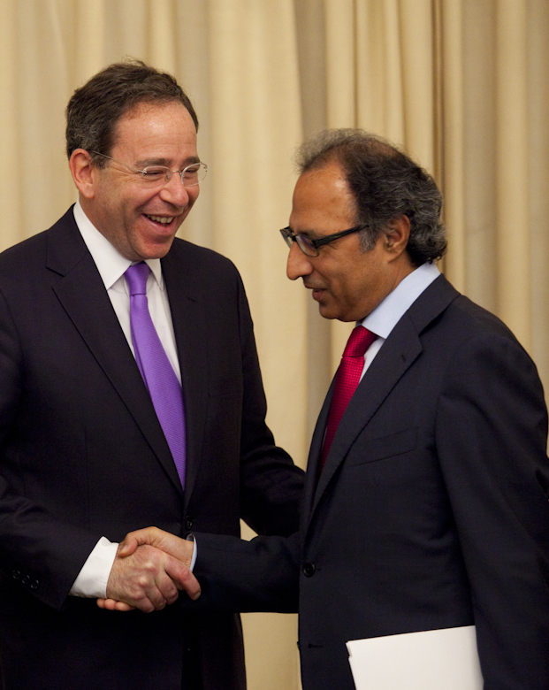 U.S. Deputy Secretary of State Thomas Nides meets with Pakistani Finance Minister Hafeez Shaikh in Islamabad, Pakistan, on April 4, 2012. [State Department photo/ Public Domain]